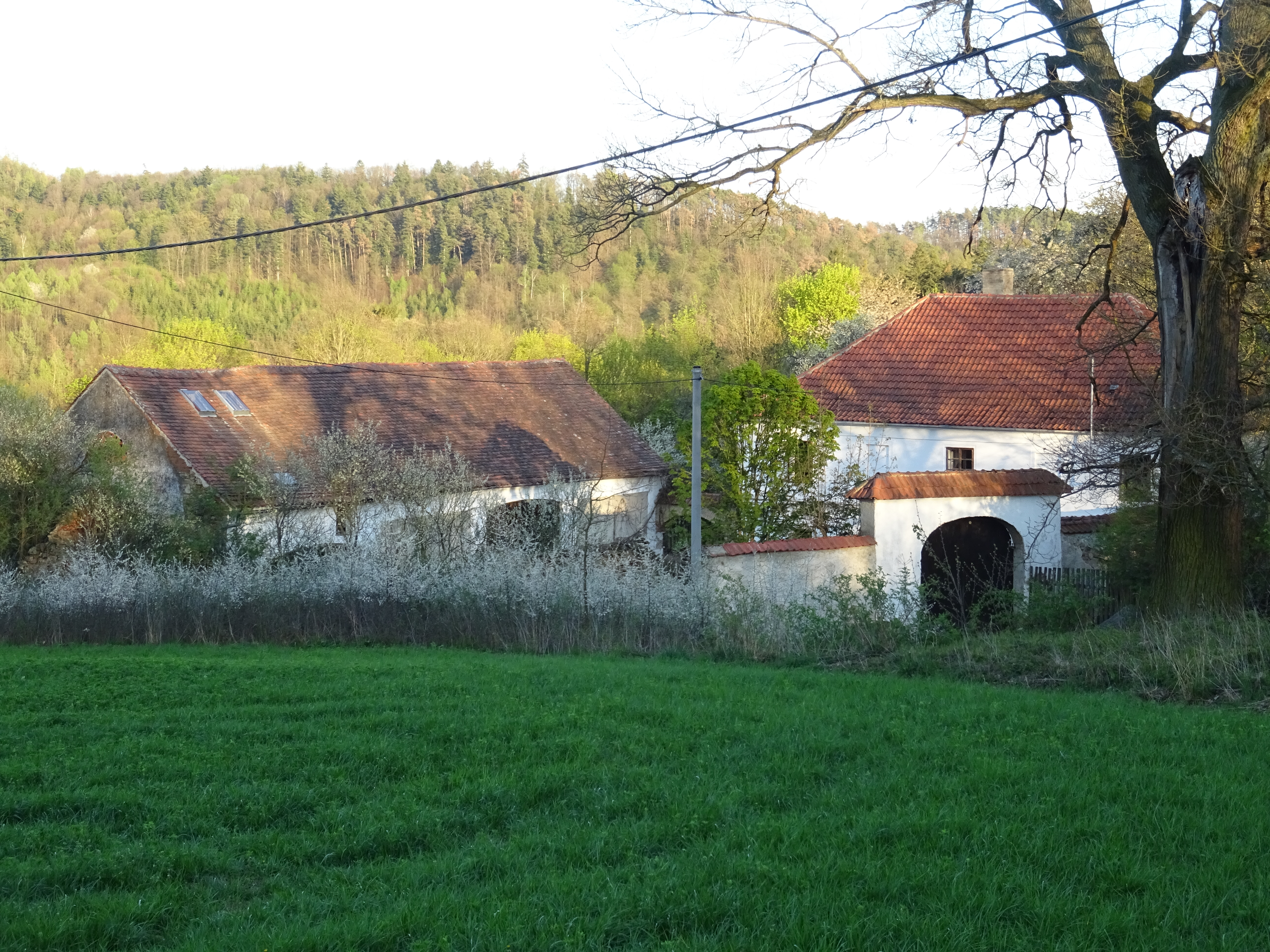 This photograph was created as a part of Wikiexpedition Mladá Vožice, a project supported by Wikimedia Foundation grant.